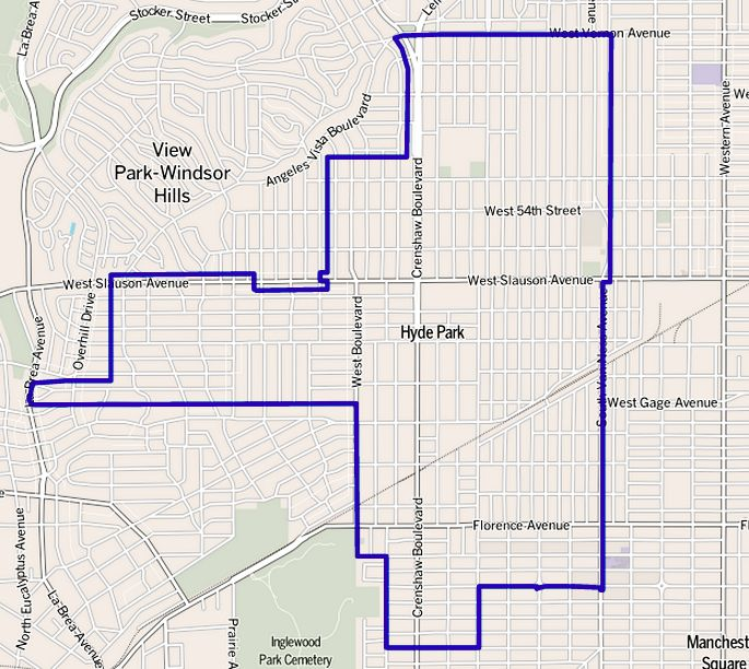 Map of the Hyde Park neighborhood of Los Angeles, California, as outlined by the Los Angeles Times. Other information Boundary map as drawn by the Los Angeles Times on a CC-by-SA background. Note at bottom right of map on the L.A. Times website noted above says "CC-by-SA" (which gives permission to use the map). There is a link there to which explains the meaning thereof. The base map is credited to The Times spells all this out at